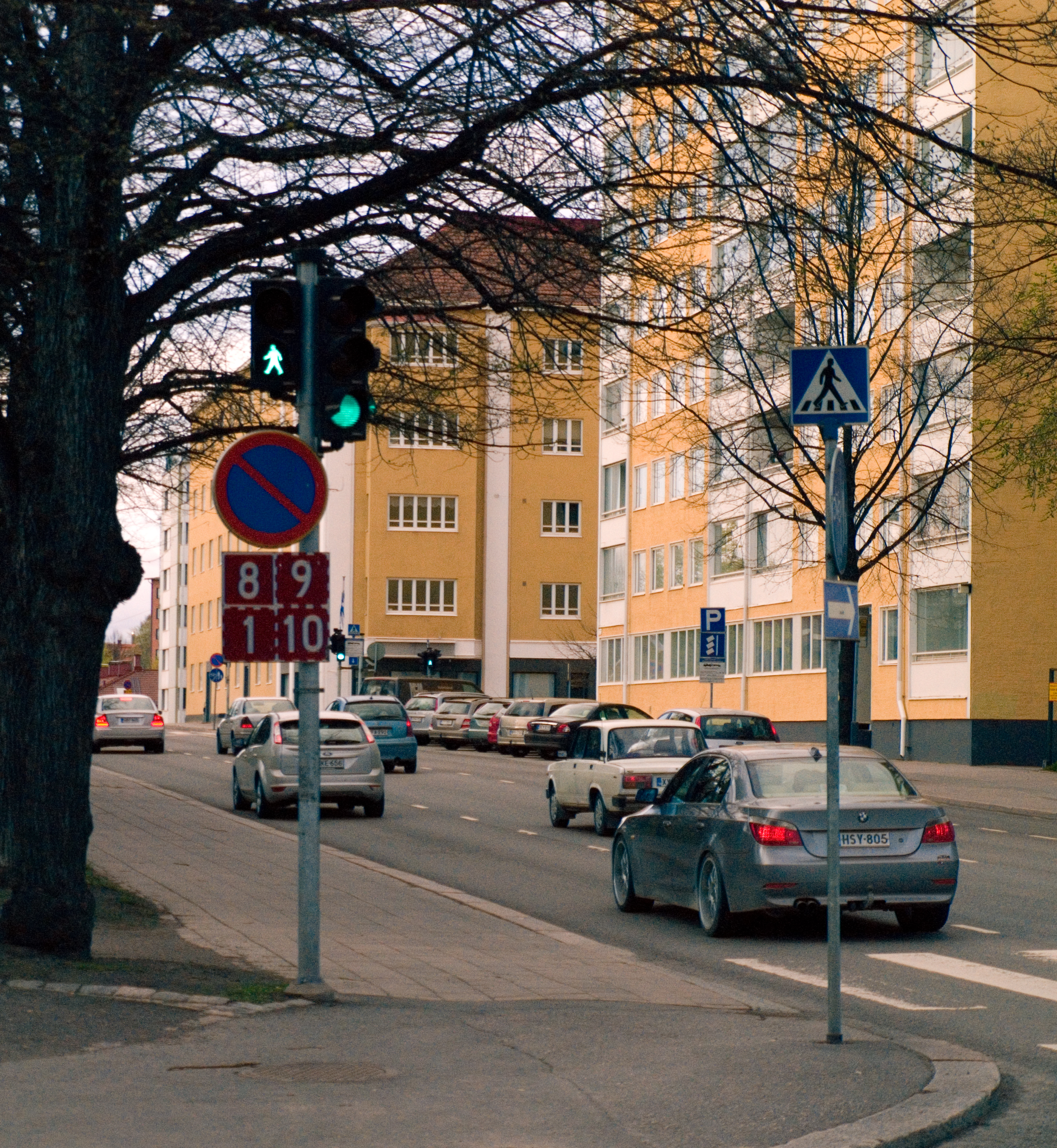 Koulukatu street in Turku, Finland, at the Mannerheiminpuisto park. May 2014.